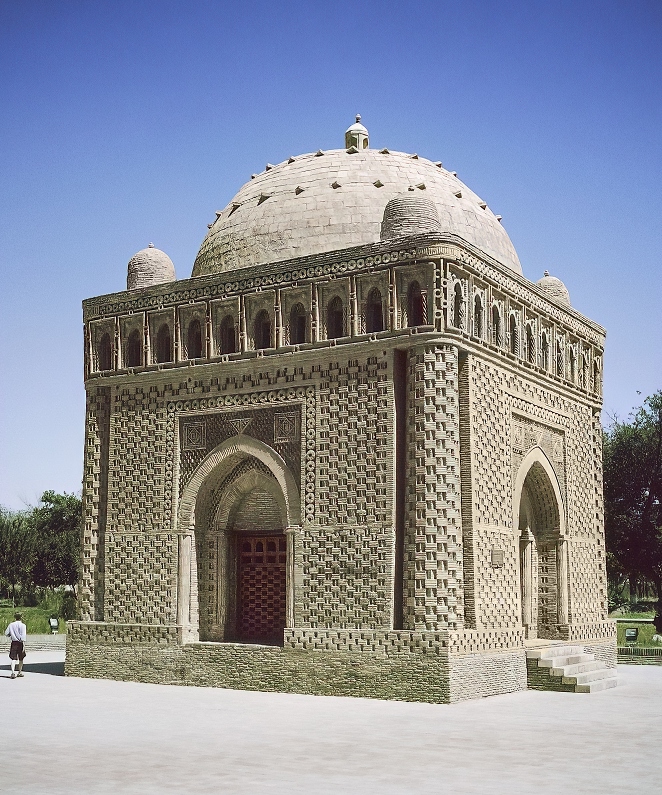 Samanid Mausoleum in Buchara, Uzbekistan